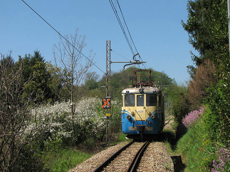 Electromotive A5 (from Spoleto Norcia Railway) railing on Ferrovia Genova Casella